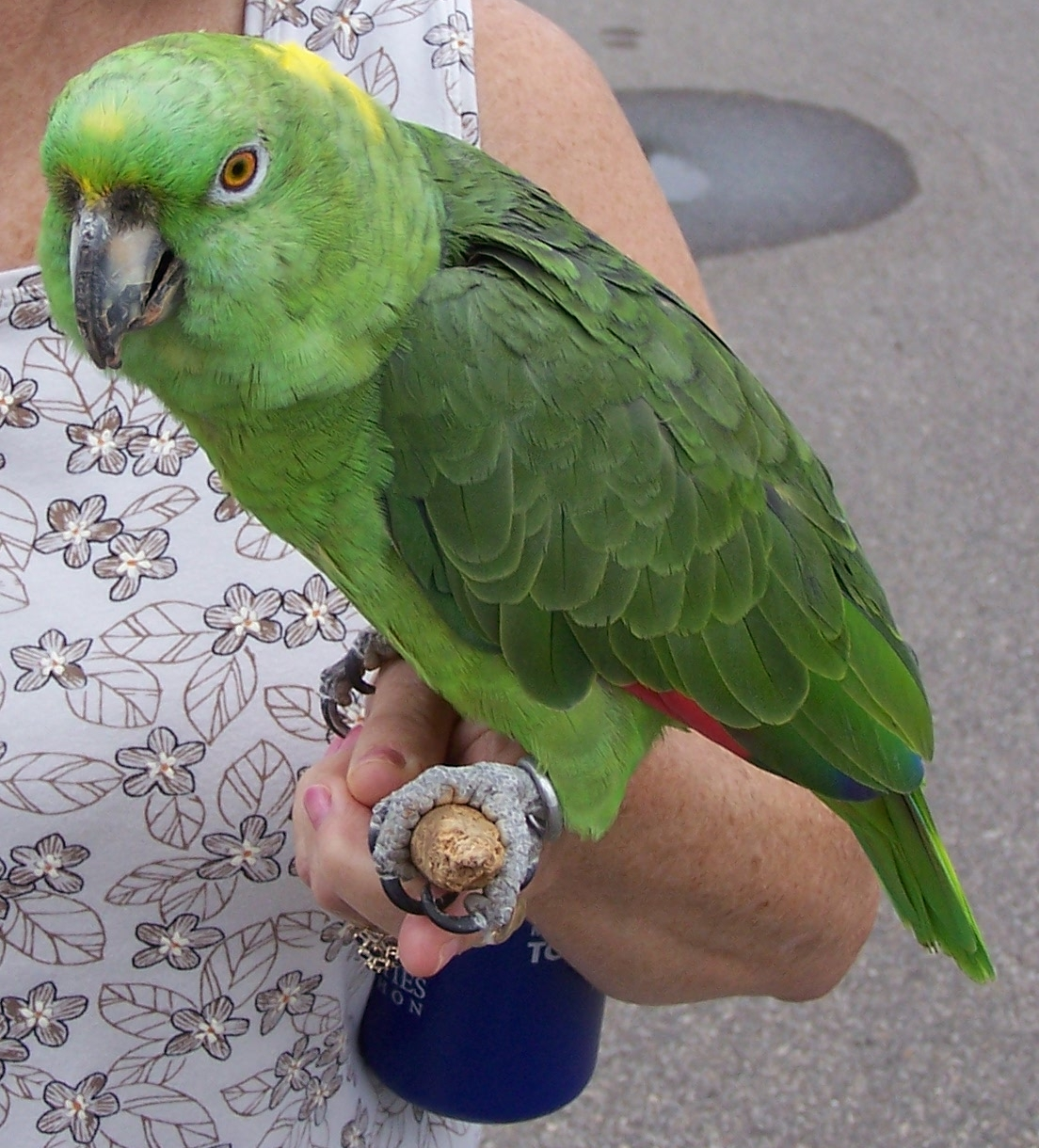 Morris is a twenty-year-old Yellow-naped Amazon parrot (Amazona auropalliata). Photographed in Golden Valley, MN, USA, June 23, 2007.